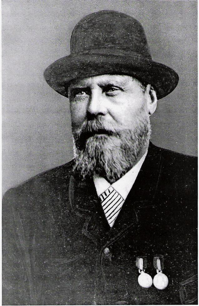 Photo from the late 1800's of Peeter All, reportedly the first Estonian to have his picture taken.